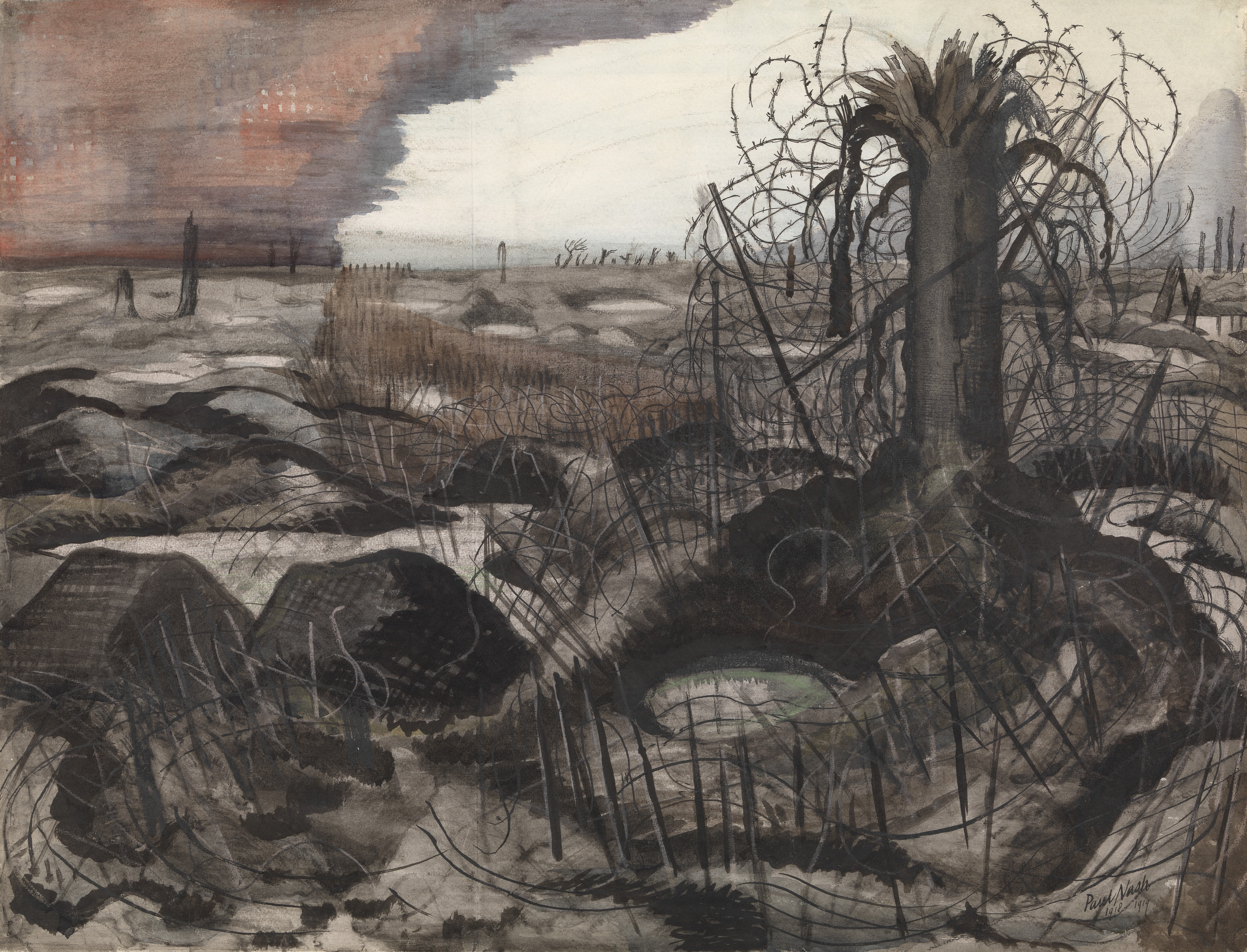 Correspondence in the Imperial War Museum between Nash and the Ministry of Information reveal that the picture was substantially complete towards the end of 1918 and that Nash planned, but did not execute, a lithograph from the design (IWM War Artists Archive: IWM WW1 267A-6). image: a devastated landscape, pocked with rain-filled shell-holes. A shattered tree stands to the right, the tree and the whole foreground dominated by a dense web of barbed wire. The sky is a dramatic contrast between white and purplish red coloured clouds.